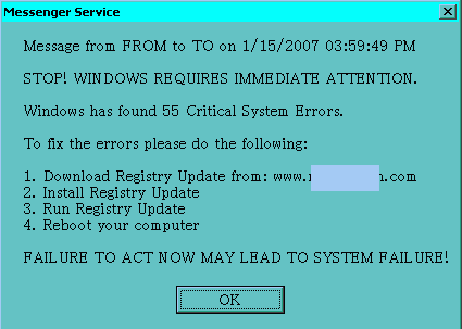 An example of the network spam.